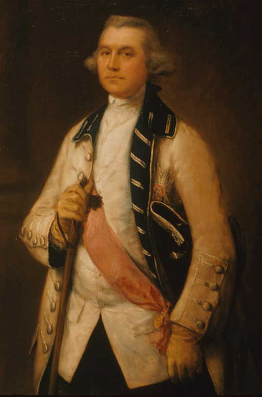 Sir William Draper KB (1721-1787), was a British military officer who conquered Manila in 1762, but lost Minorca in 1782. He was involved in 1774 with a key meeting that agreed an early set of cricket rules including the leg before wicket rule.